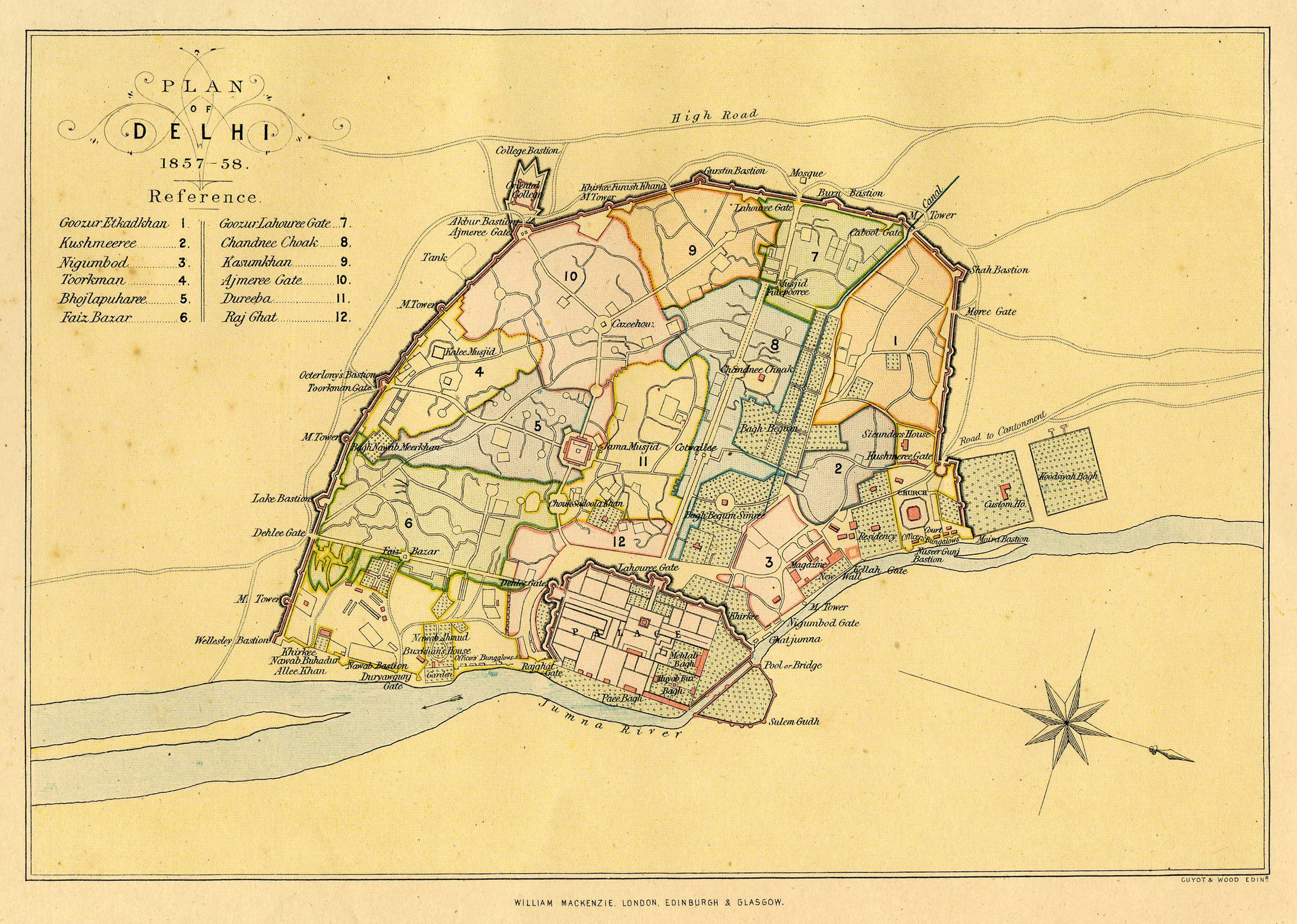 Delhi as it looked just before the Rebellion of 1857 (notice that north is toward the right; a map from A History of the Nineteenth Century by Rev. James Taylor, Edinburgh, 1860.